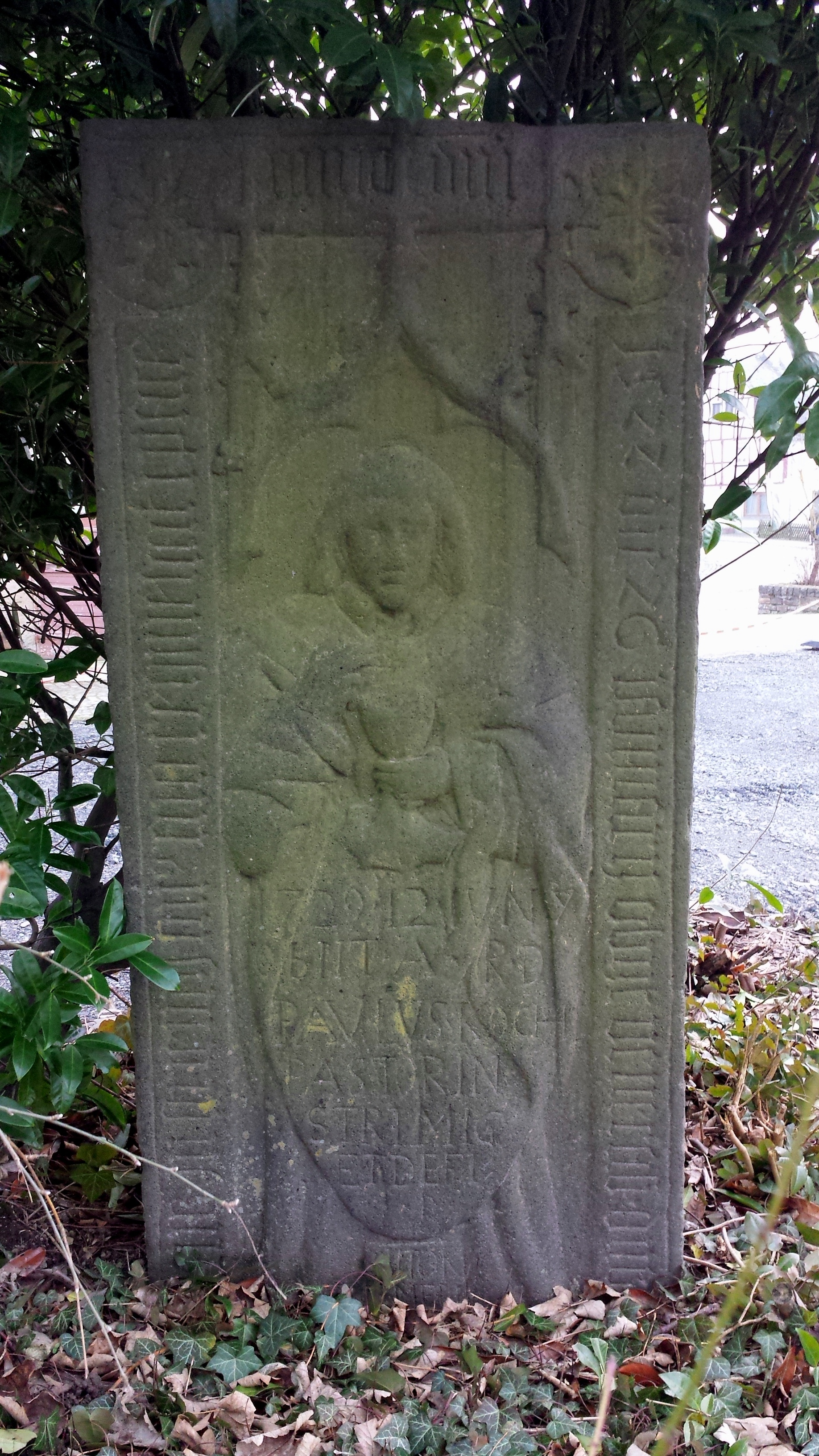 Gravestone Johann von Bechel in Mittelstrimmig in front of the church